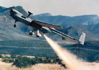 U.S. Army Hunter (RQ-5) unmanned aircraft.